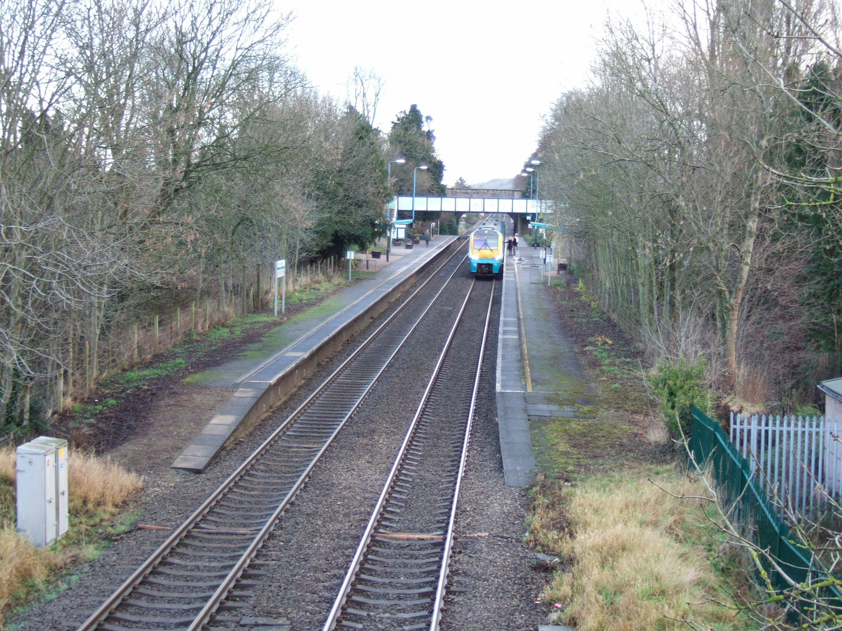 Church Stretton railway station, looking north – a train for Carmarthen stands at platform 2.